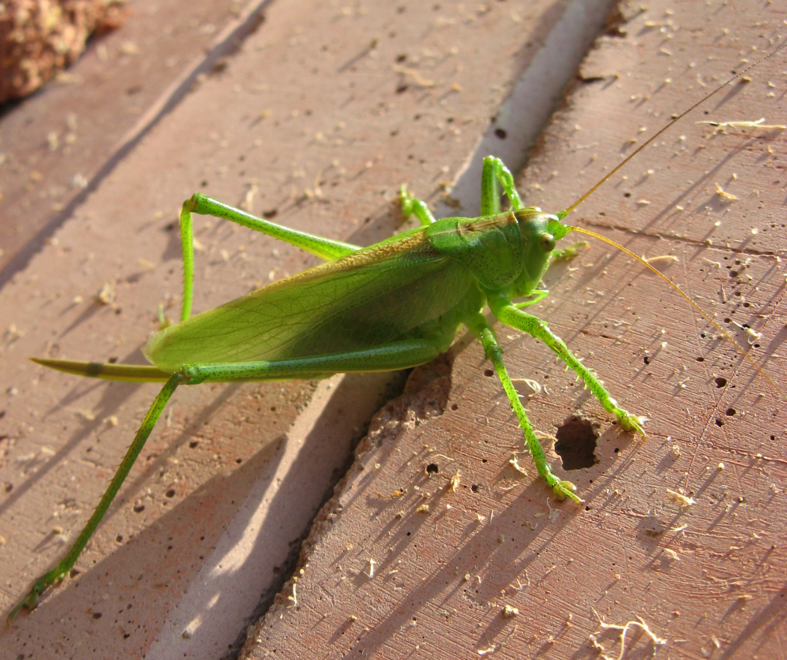 great green bush-cricket